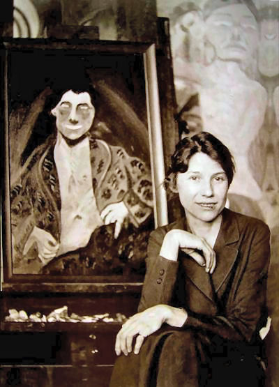 Leah Hirsig, soon after becoming "Alostrael" in 1919